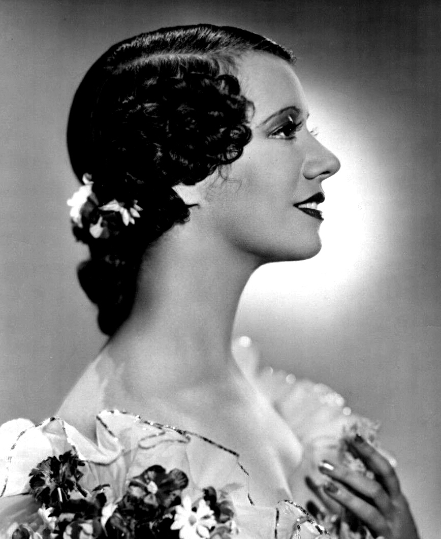 Publicitdy photo of Lily Pons